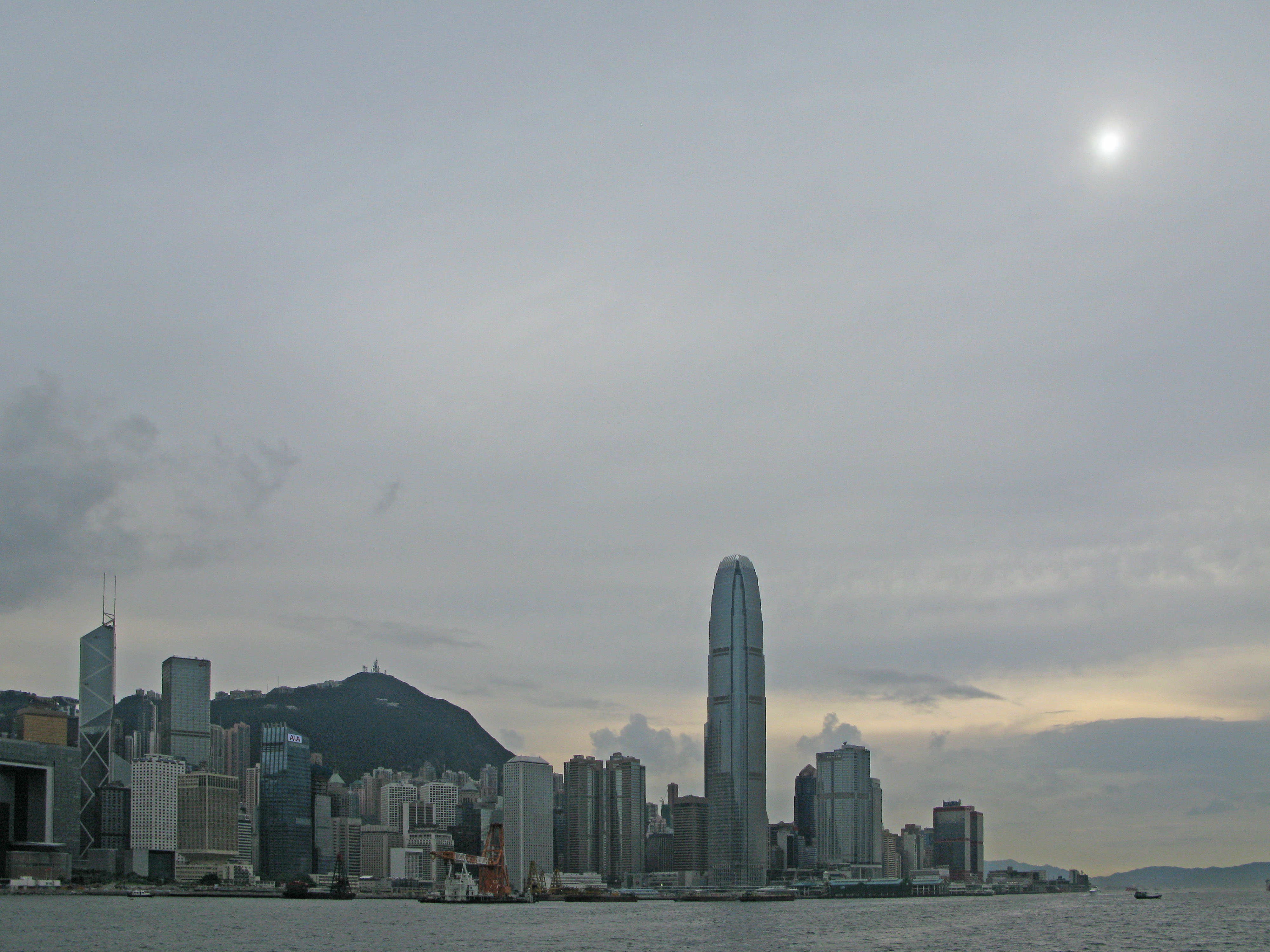 Altostratus clouds over Hong Kong on May 13 2012 Category:Altostratus clouds